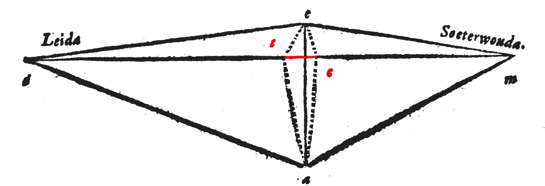 Triangulation baseline between Leyden and Zoeterwoude, The Netherlands, figure from page 157 of Eratosthenes Batavus by W. Snellius, baseline tc highlighted in red